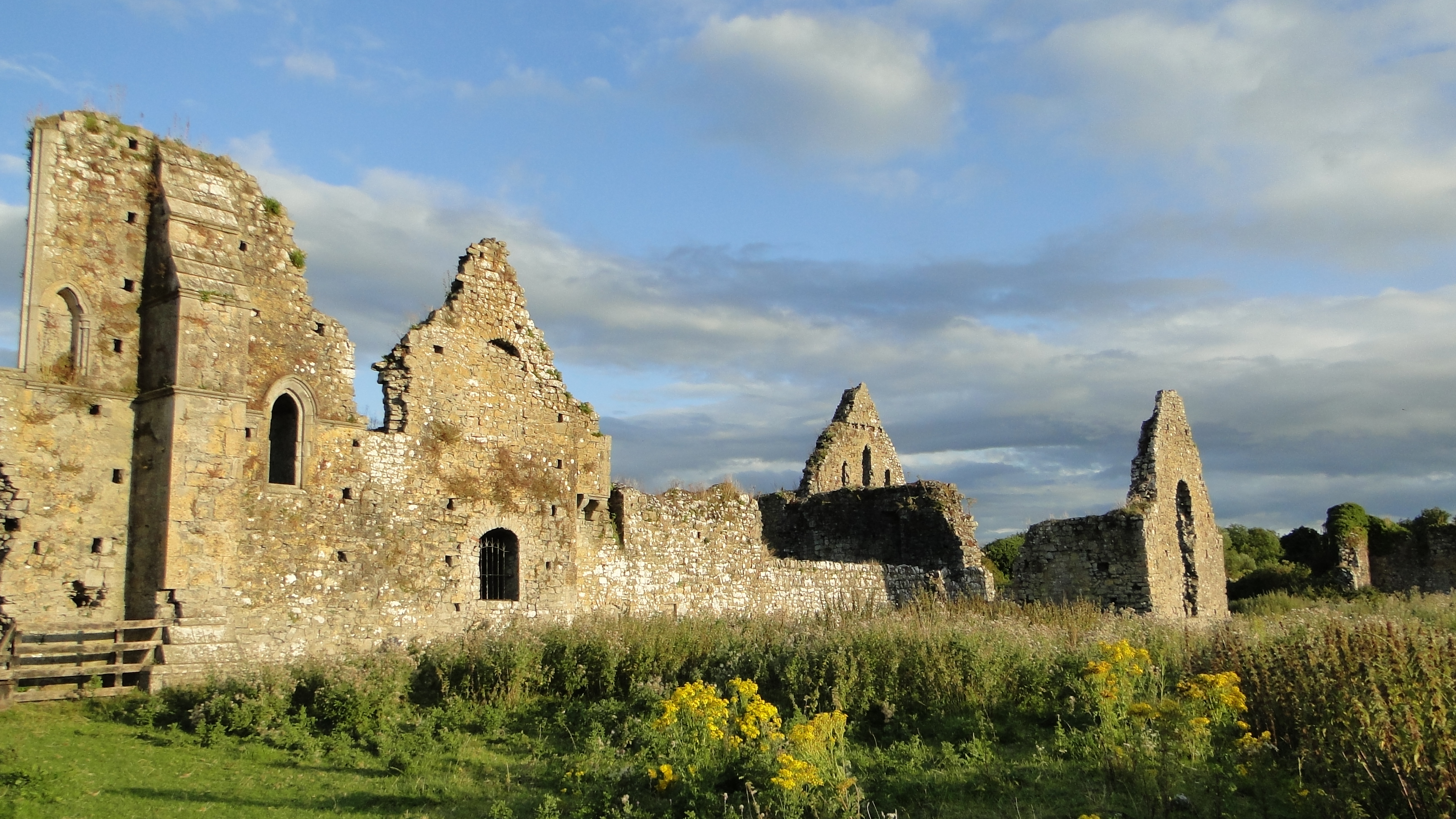 Athassel Abbey Priory